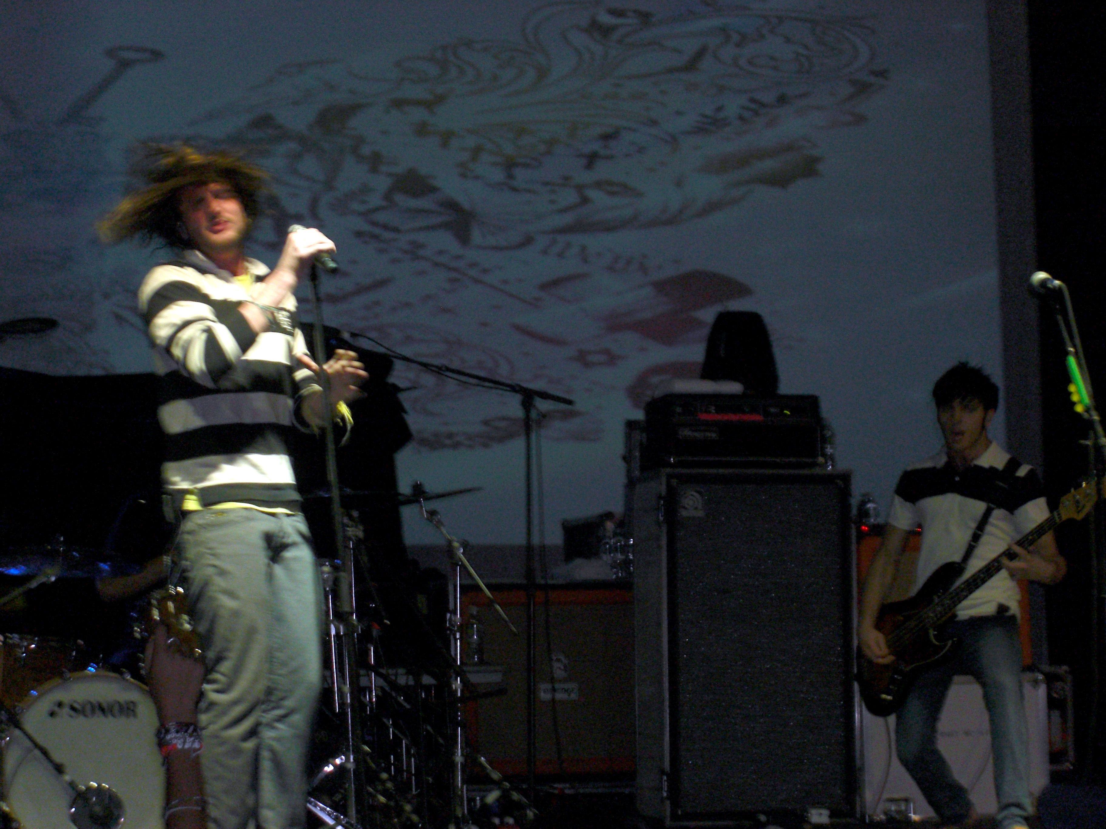 Cute is What we Aim For opening for Boys Like Girls at RIT on October 12, 2008